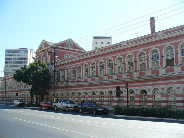 "Centro Cultural Bernardo Mascarenhas", former "Companhia Têxtil Bernardo Mascarenhas", Juiz de Fora, Brazil.